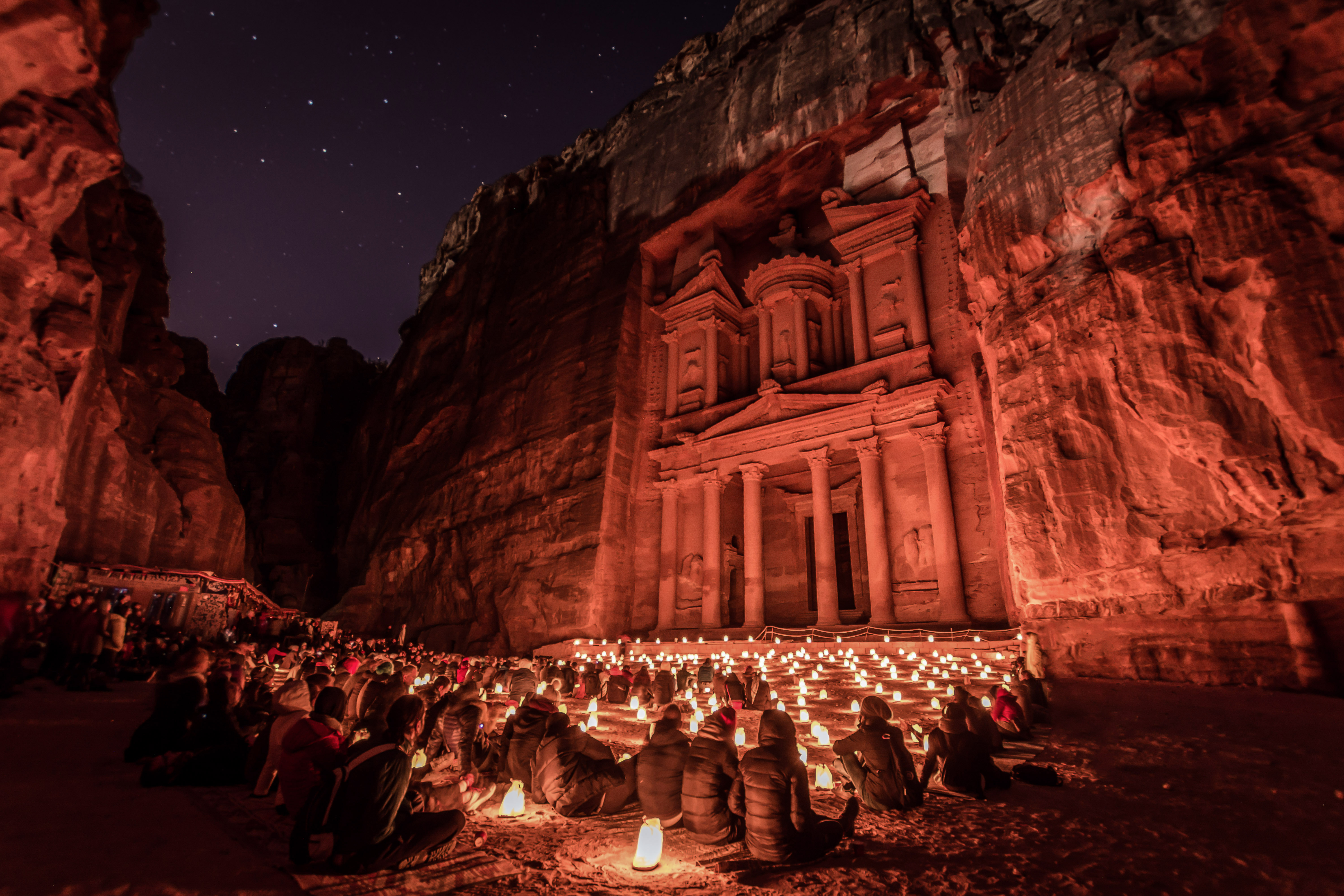 Al-Khazneh, "The Treasury", is one of the most elaborate temples in the ancient Arab Nabatean Kingdom city of Petra. The structure is believed to have been the mausoleum of the Nabatean King Aretas IV in the 1st century AD. It is one of the most popular tourist attractions in both Jordan and the region. It became to be known as "Al-Khazneh", or The Treasury, in the early 19th century by the area's Bedouins as they had believed it contained treasures.